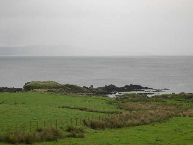 Site of dun on Ugadale Point, Kintyre. Site of a dun (fort) at Ugadale Point, Kintyre, and looking out across the Kilbrannan Sound towards the Isle of Arran.